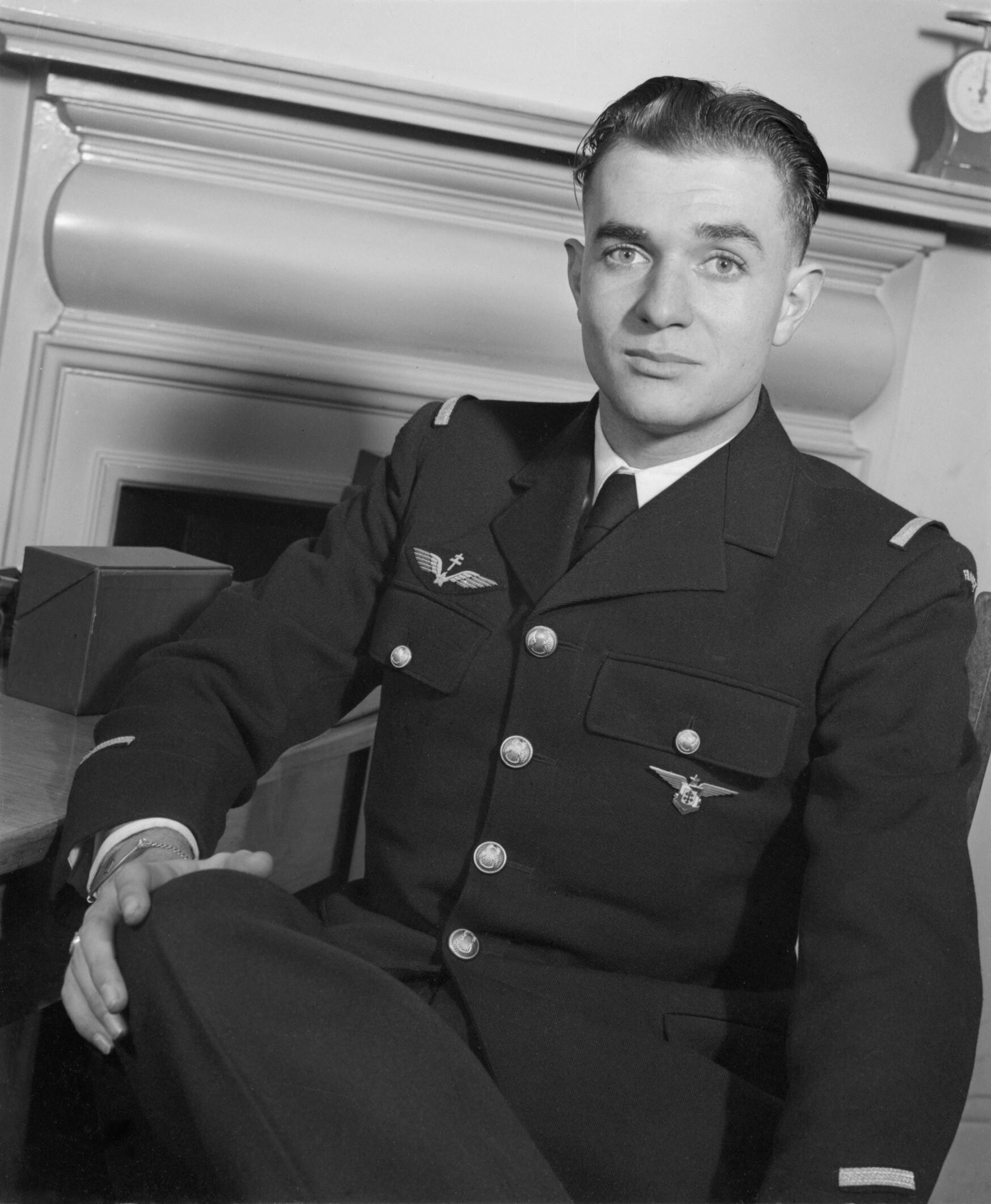 Royal Air Force Personalities, 1939-1945. Sous-Officier Pierre Clostermann, when serving as a pilot a with No. 341 (Alsace) Squadron of the Free French Air Force.